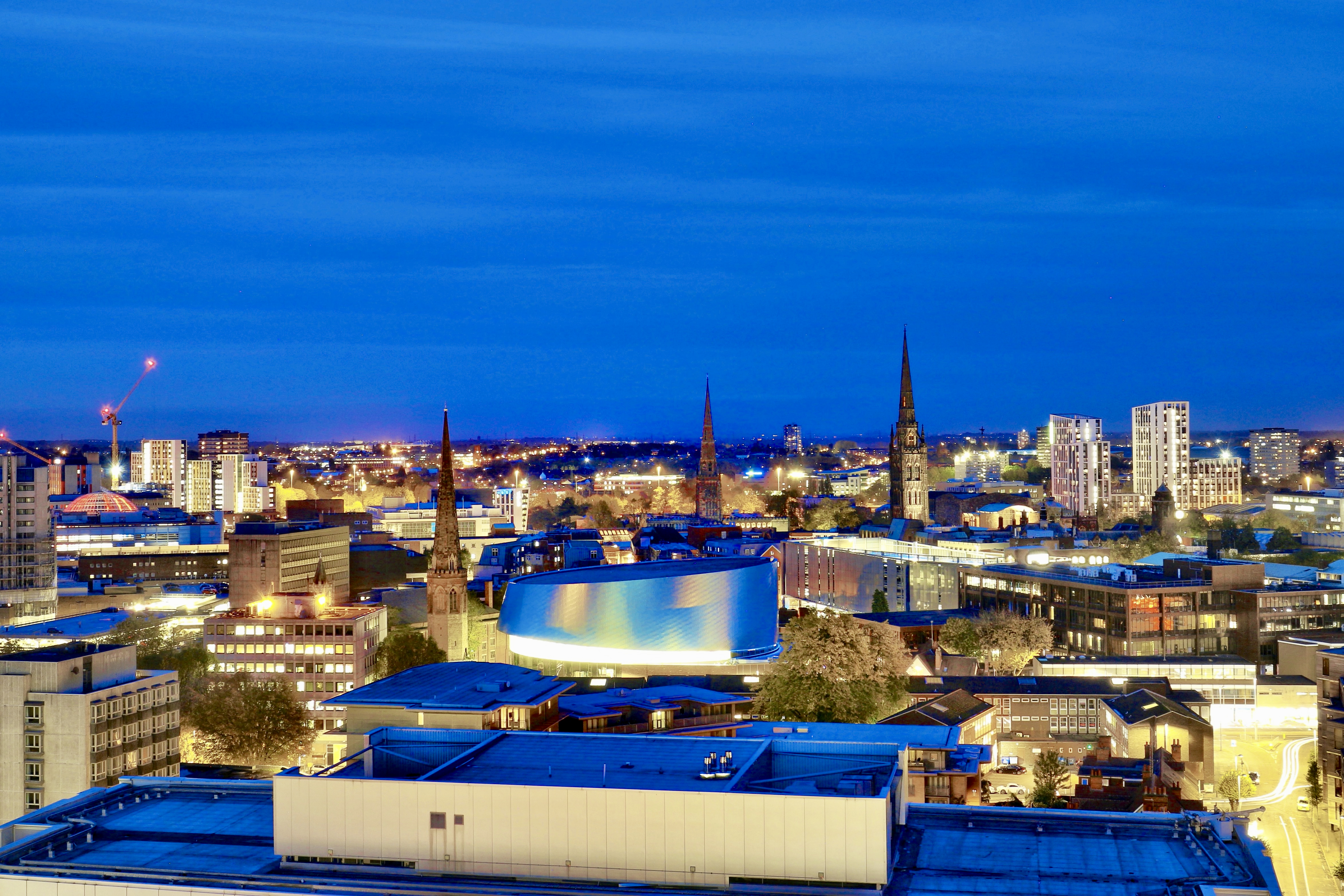 Coventry City Centre (2019)